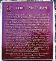 Fort Saint-Jean plaque on campus of Royal Military College of Canada; The plaque was erected by Historic Sites and Monuments Board of Canada in 1926 and replaced in 1980.